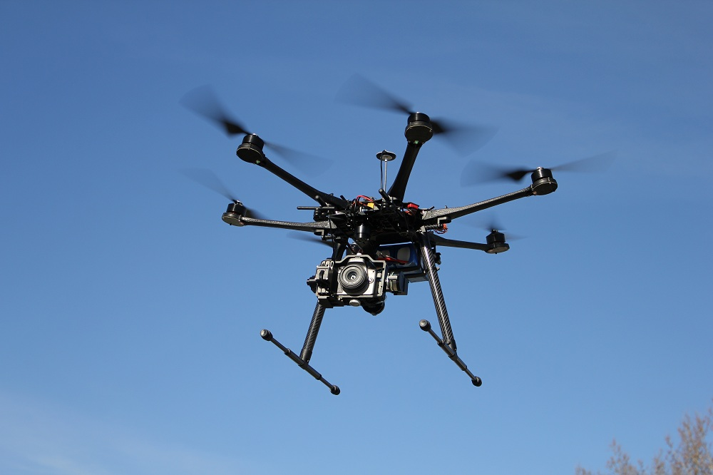 A hexarocopter, a model helicopter Multicopter DJI S800 which was mounted on a self-constructed fastening for cameras. This was designed for the "Helicam project" in order for a film crew for the nature documentary series UNIVERSUM the Austrian Broadcasting Corporation. Photographed in Obermillstatt near Lake Millstatt (Millstätter See), district Spittal an der Drau in Carinthia, Austria / European Union.